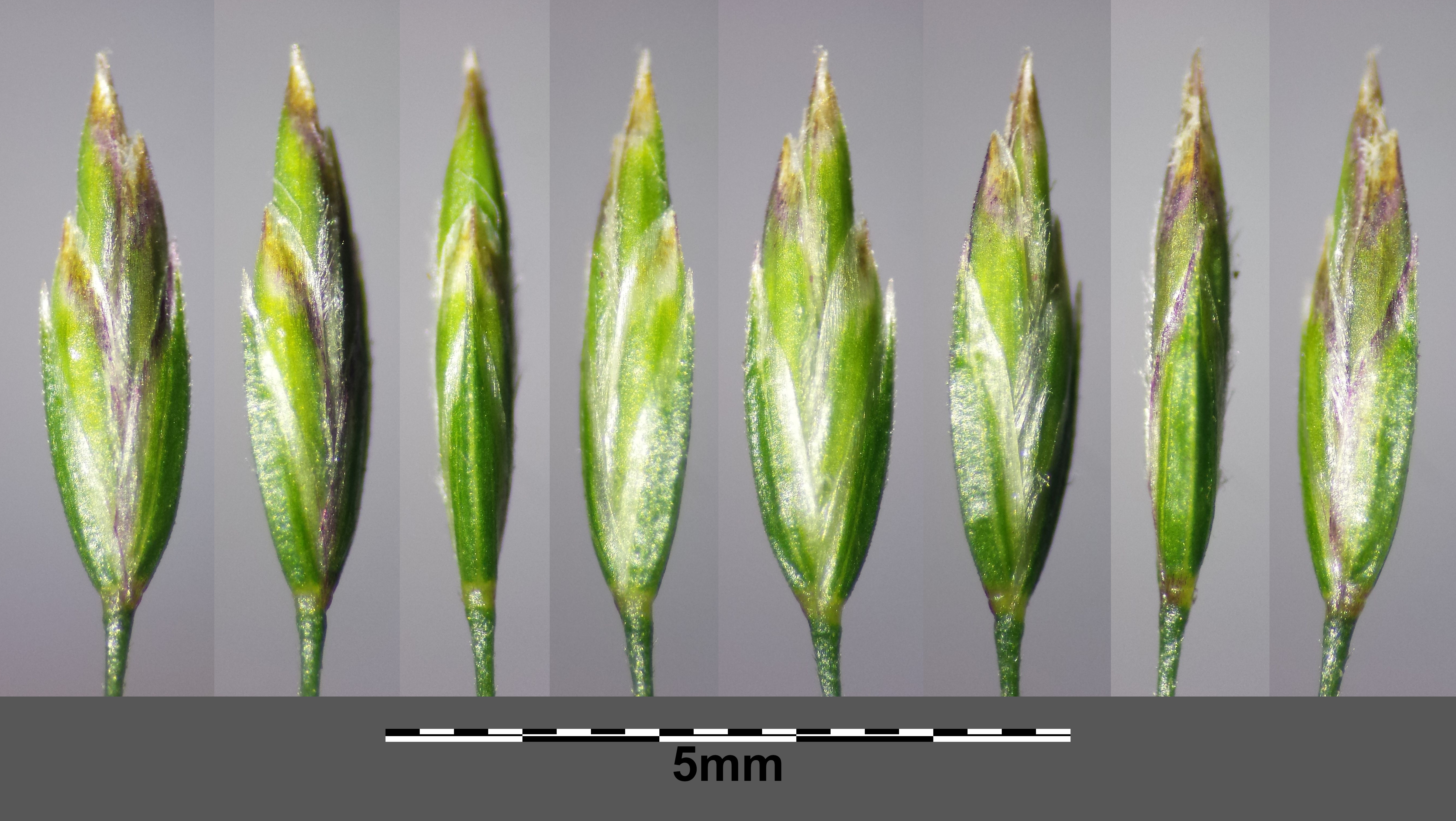 Spikelet Taxonym: Poa palustris ss Fischer et al. EfÖLS 2008 ISBN 978-3-85474-187-9 Location: next to Marchfeldkanal near Groß-Jedlersdorf, Wien-Floridsdorf - ca. 160 m a.s.l. Habitat: shore